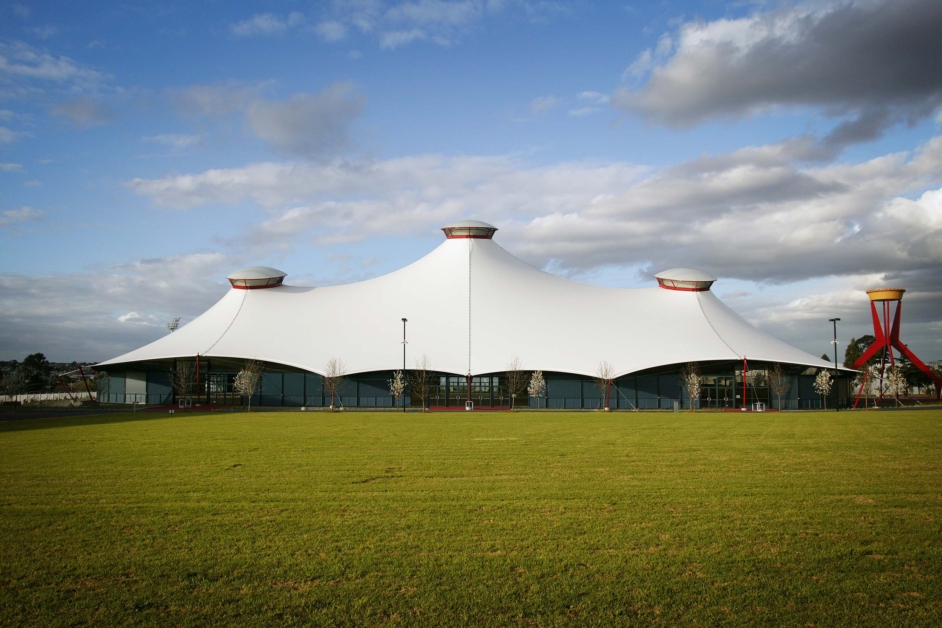 The magnificent Grand Pavilion is the heart of Melbourne Showgrounds. Its unique ‘big top’ design coupled with its 8000 square meters of floor-space, make it ideal for exhibitions, trade shows and corporate and social club events.